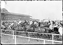 A black and white photo of some horses.